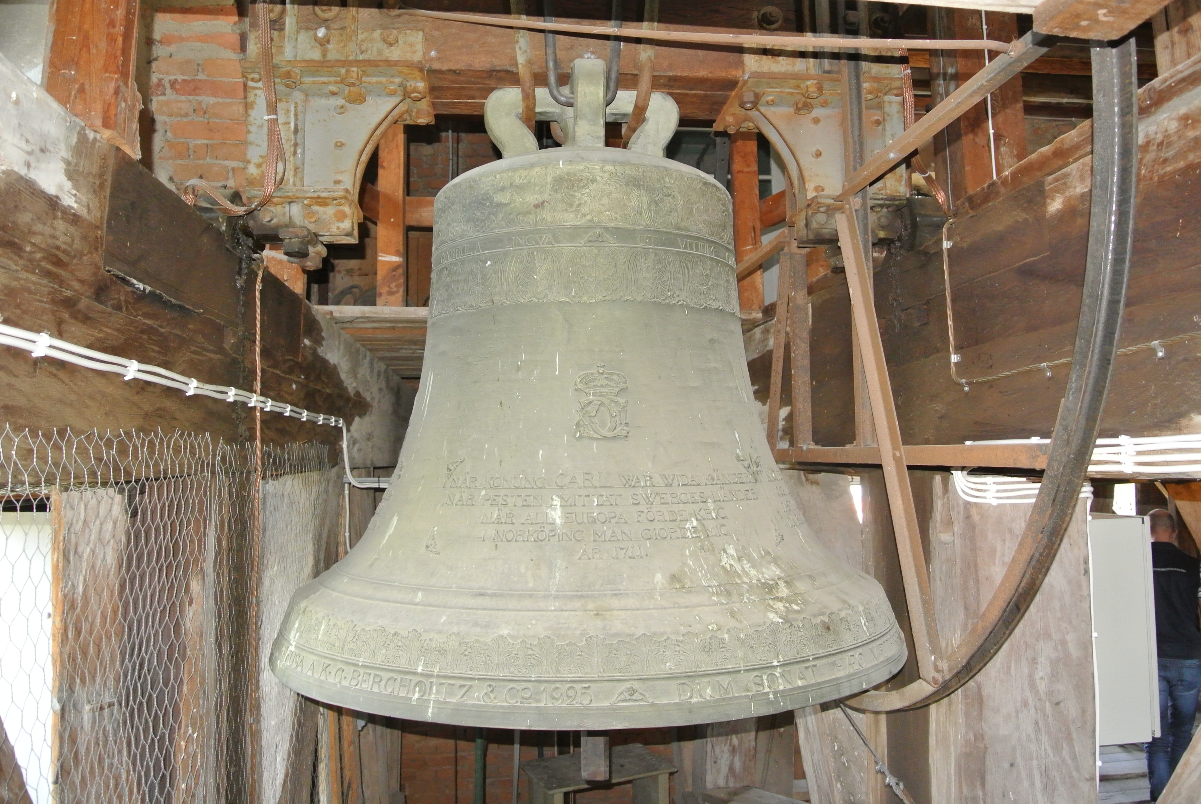 St Larsklockan i Linköpings domkyrka